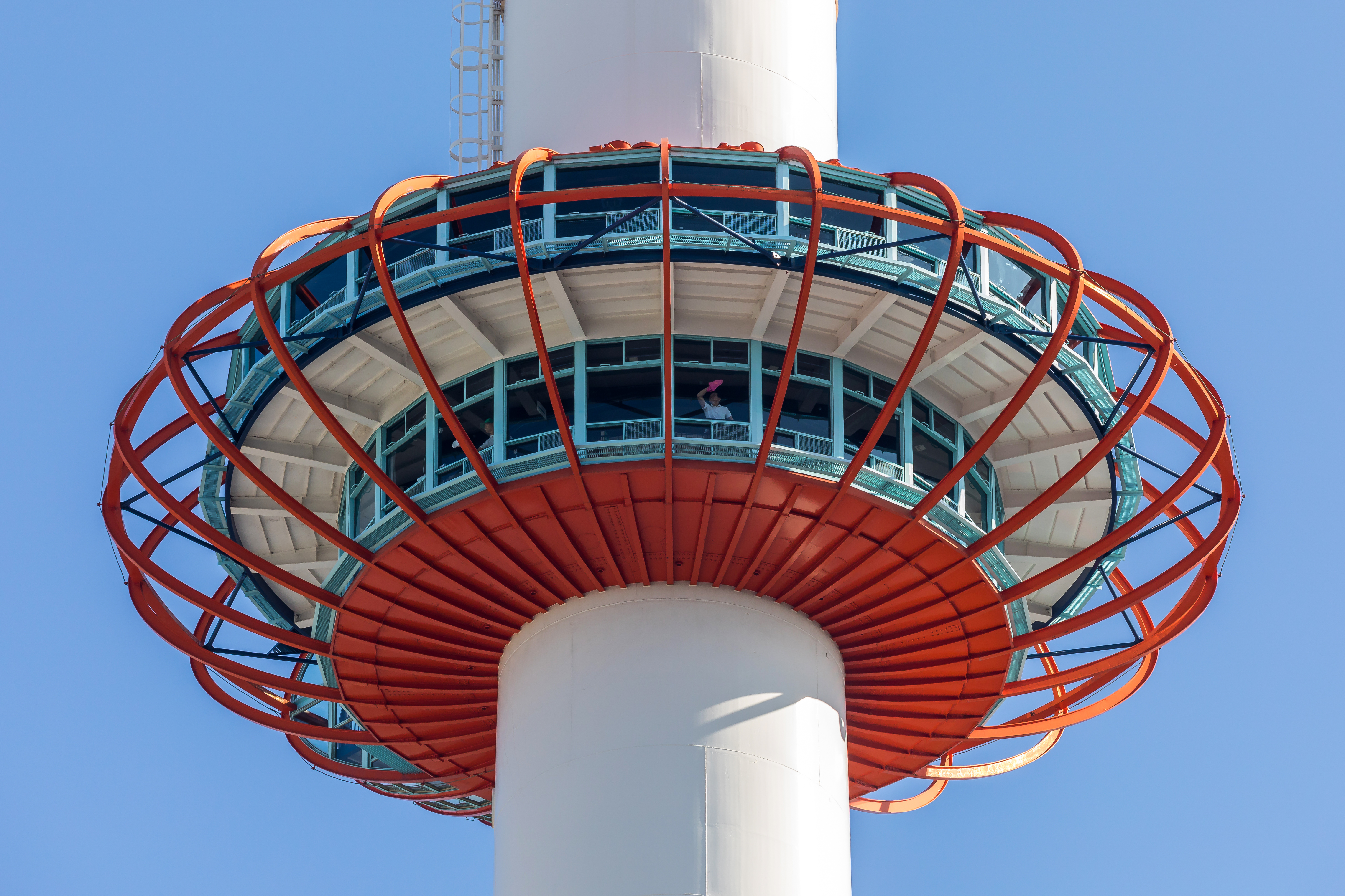 Observation deck at 100 m (328 ft), in Kyoto Tower with staff inside cleaning the windows, Kyoto, Japan. This steel tower is the tallest structure in Kyoto.